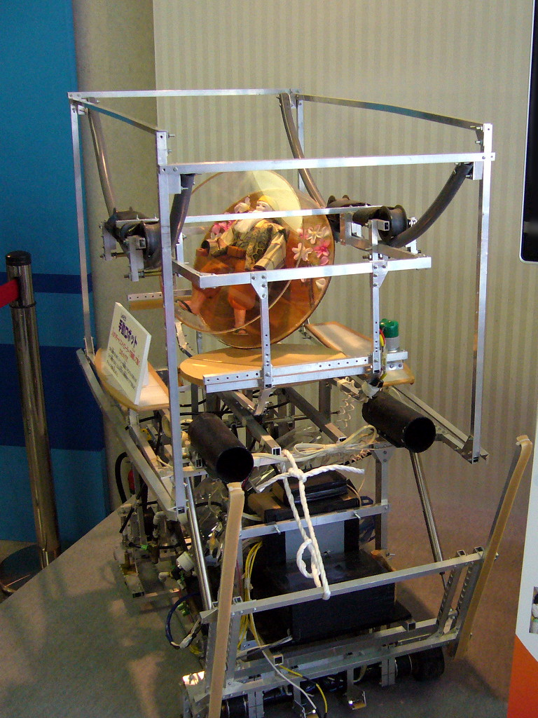 Kosen Robocon 2006 Takuma-NCT "Ark"